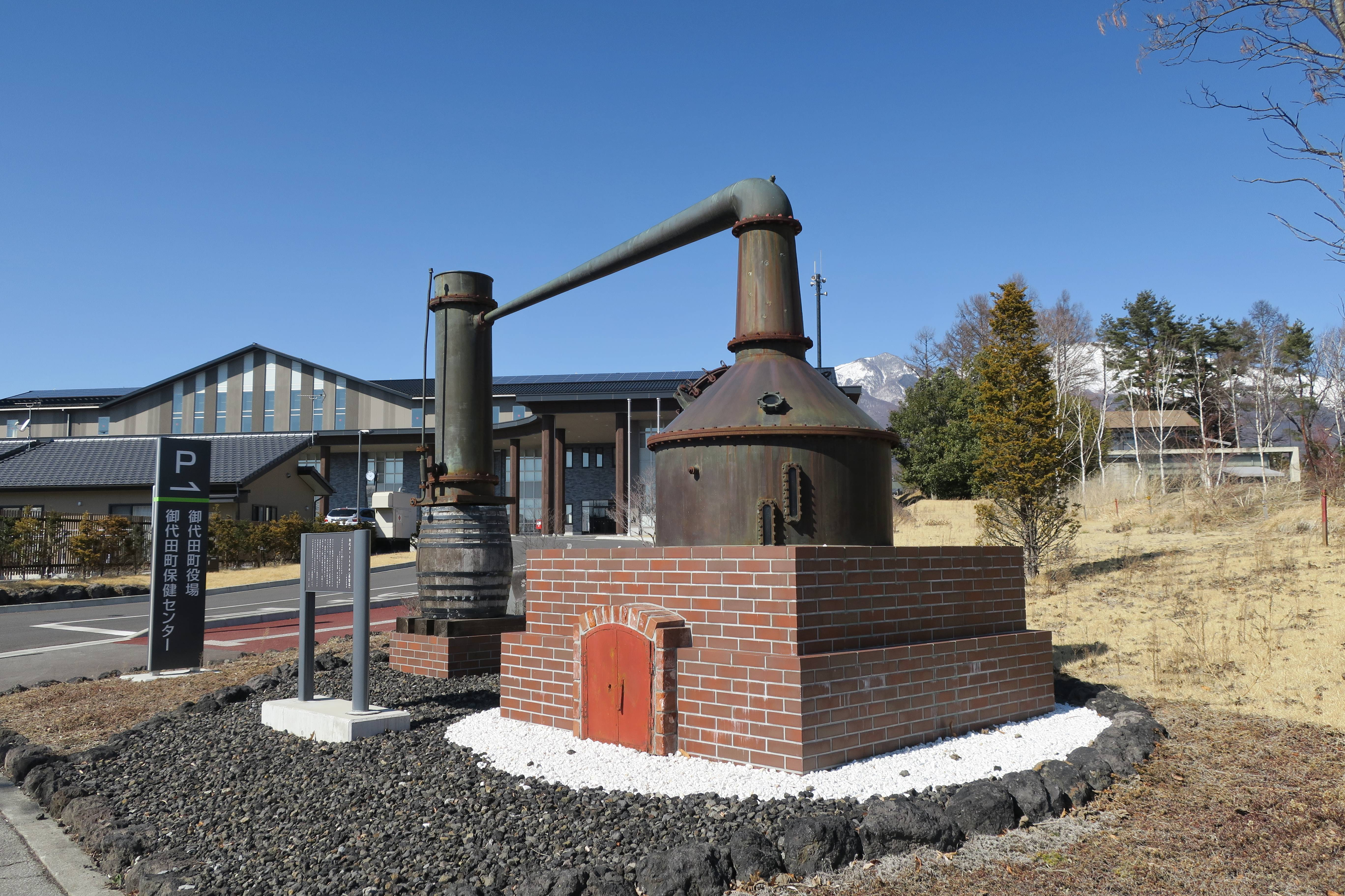 Miyota town office.